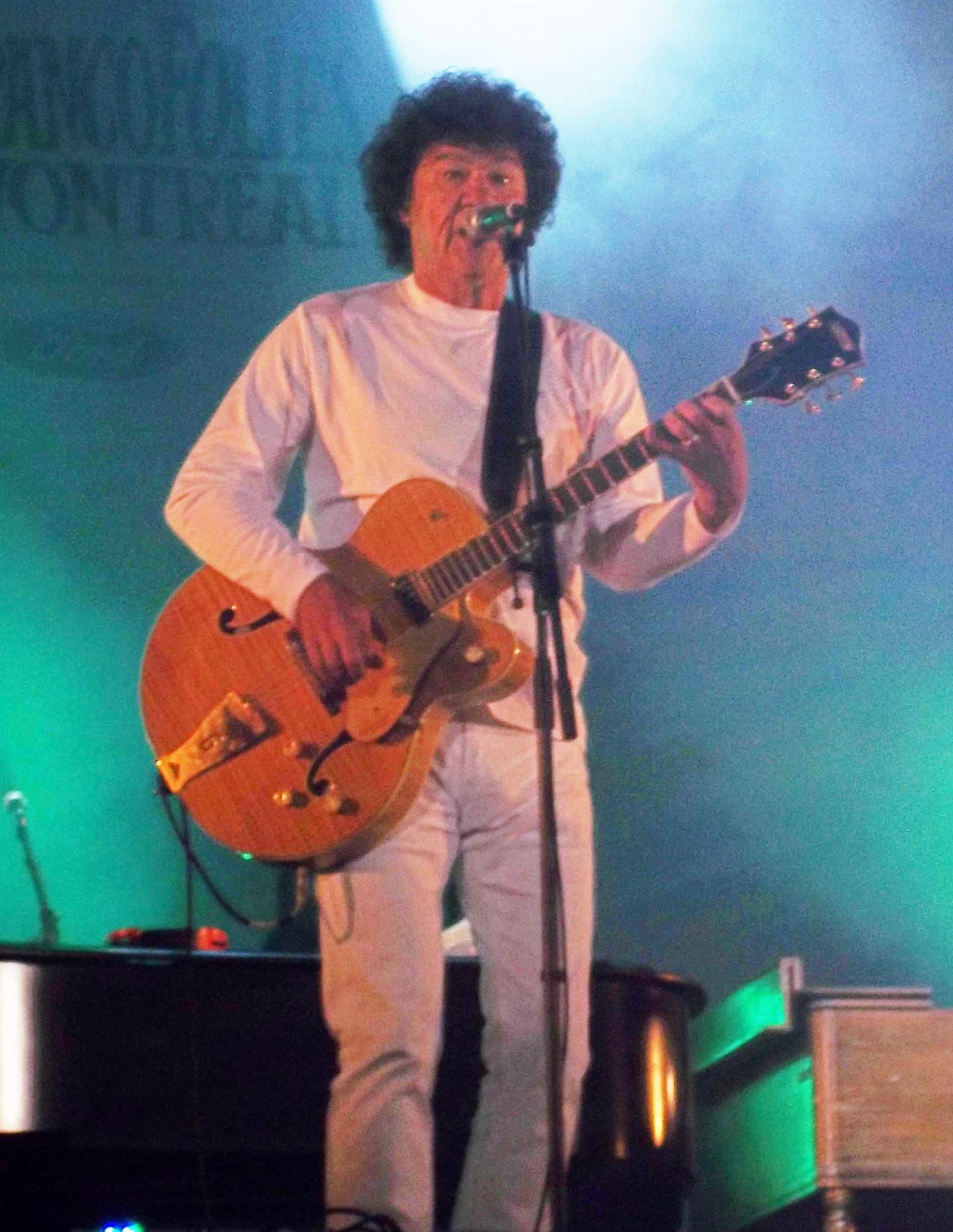 Robert Charlebois in Montreal, June 13, 2012